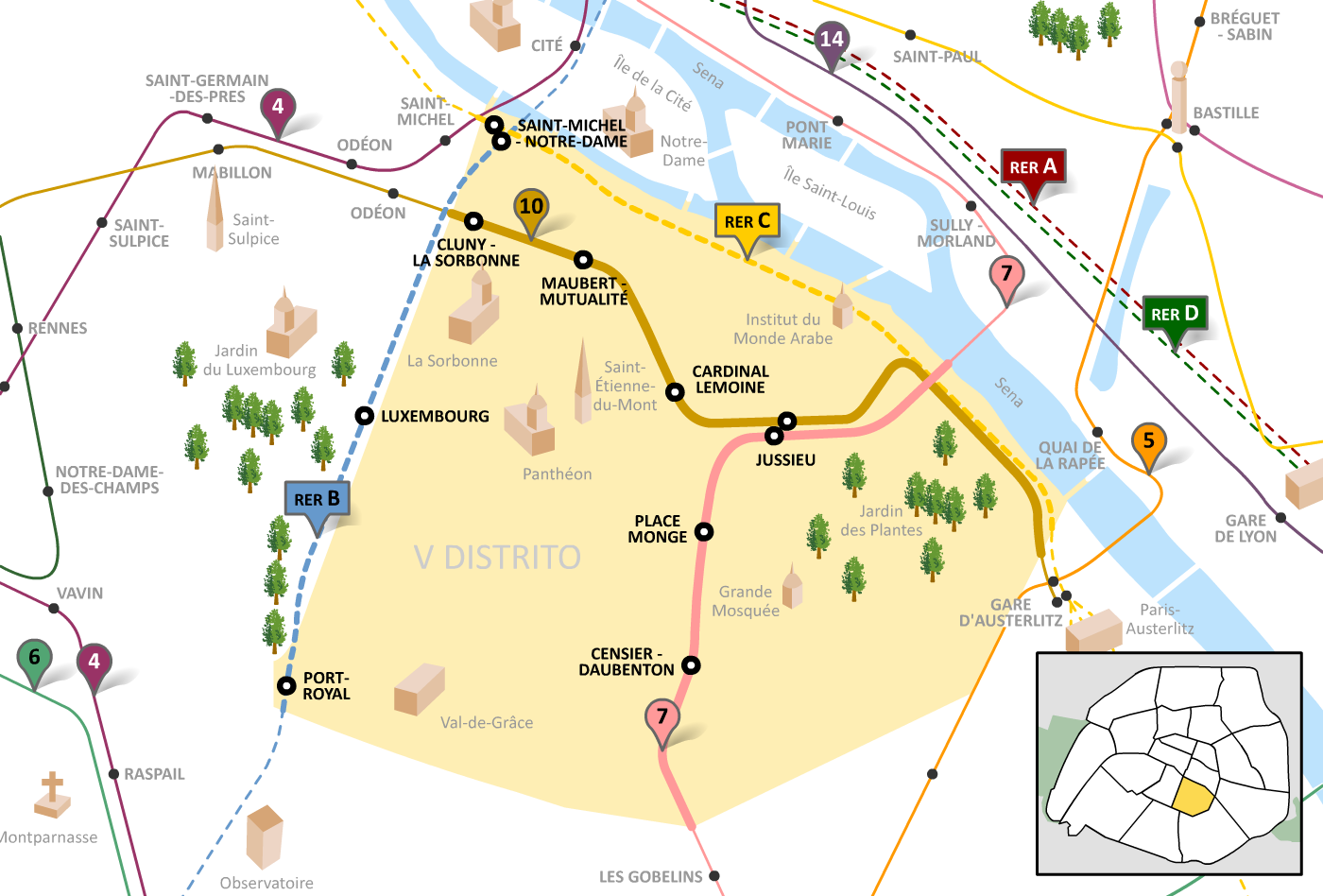 Paris 5th district (France), metro (subway) lines and RER. In spanish